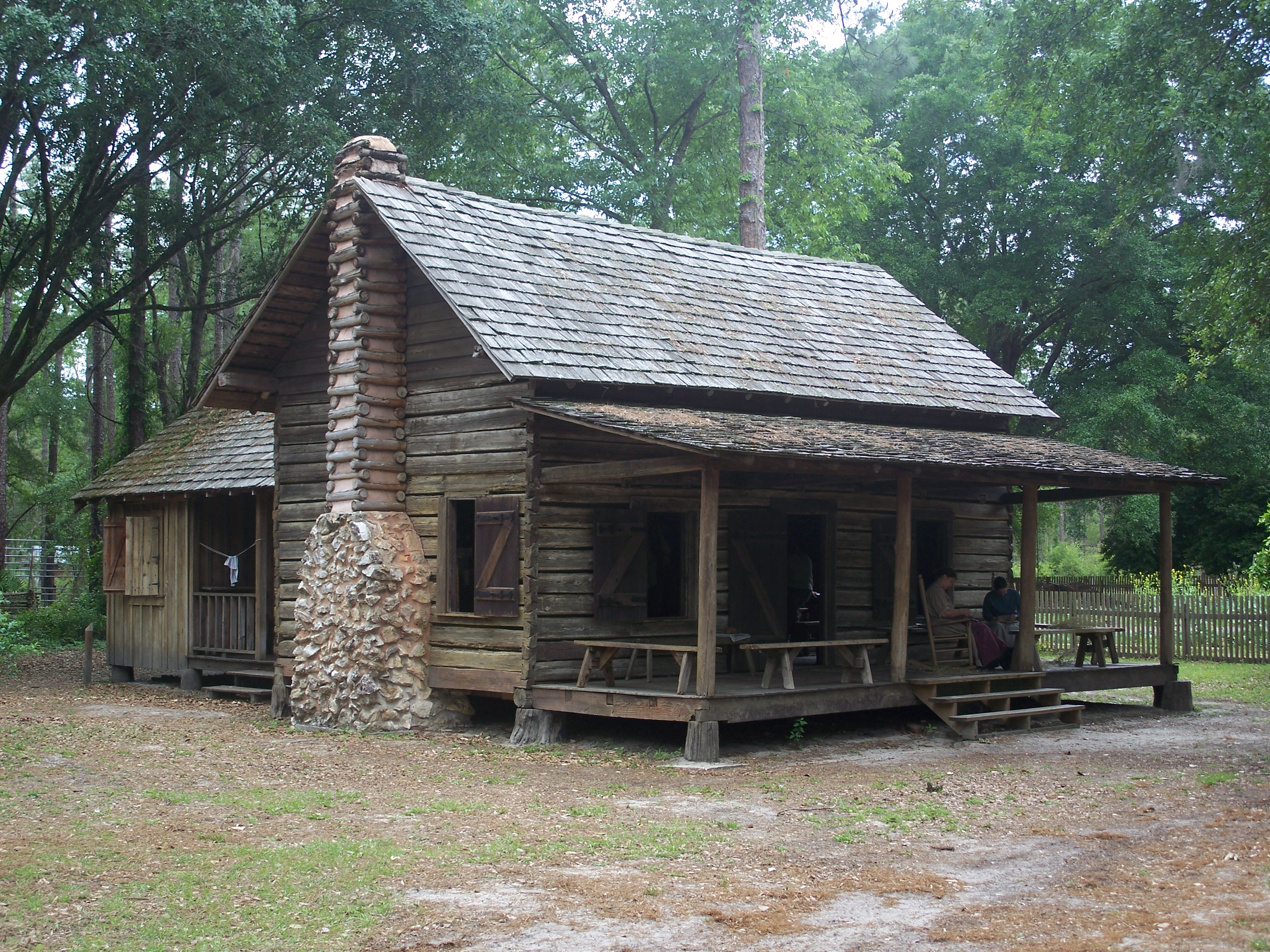 Gainesville: Morningside Nature Center: Part of the Living History Farm.